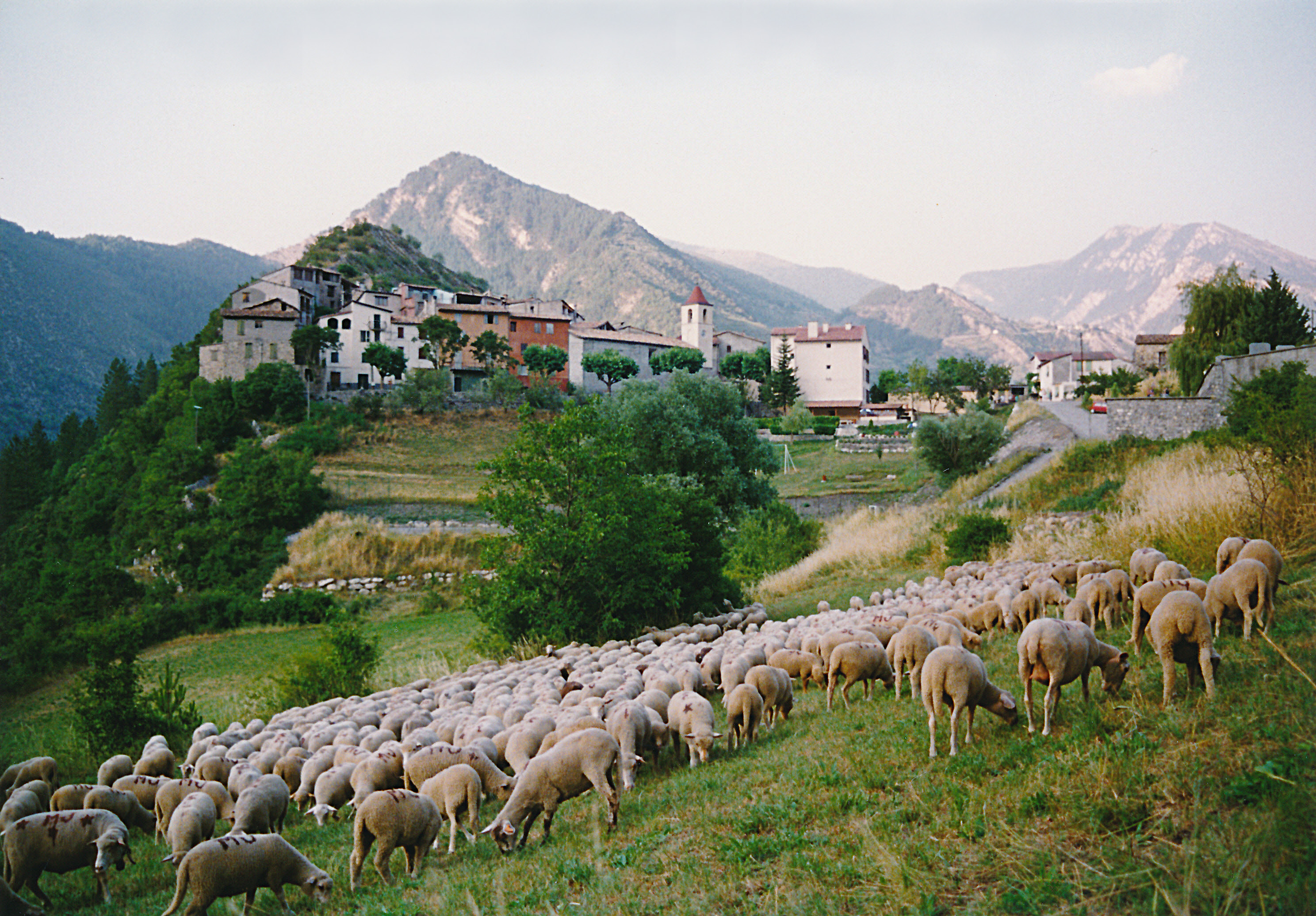 Rigaud, Alpes-Maritimes - The transhumance in the village.